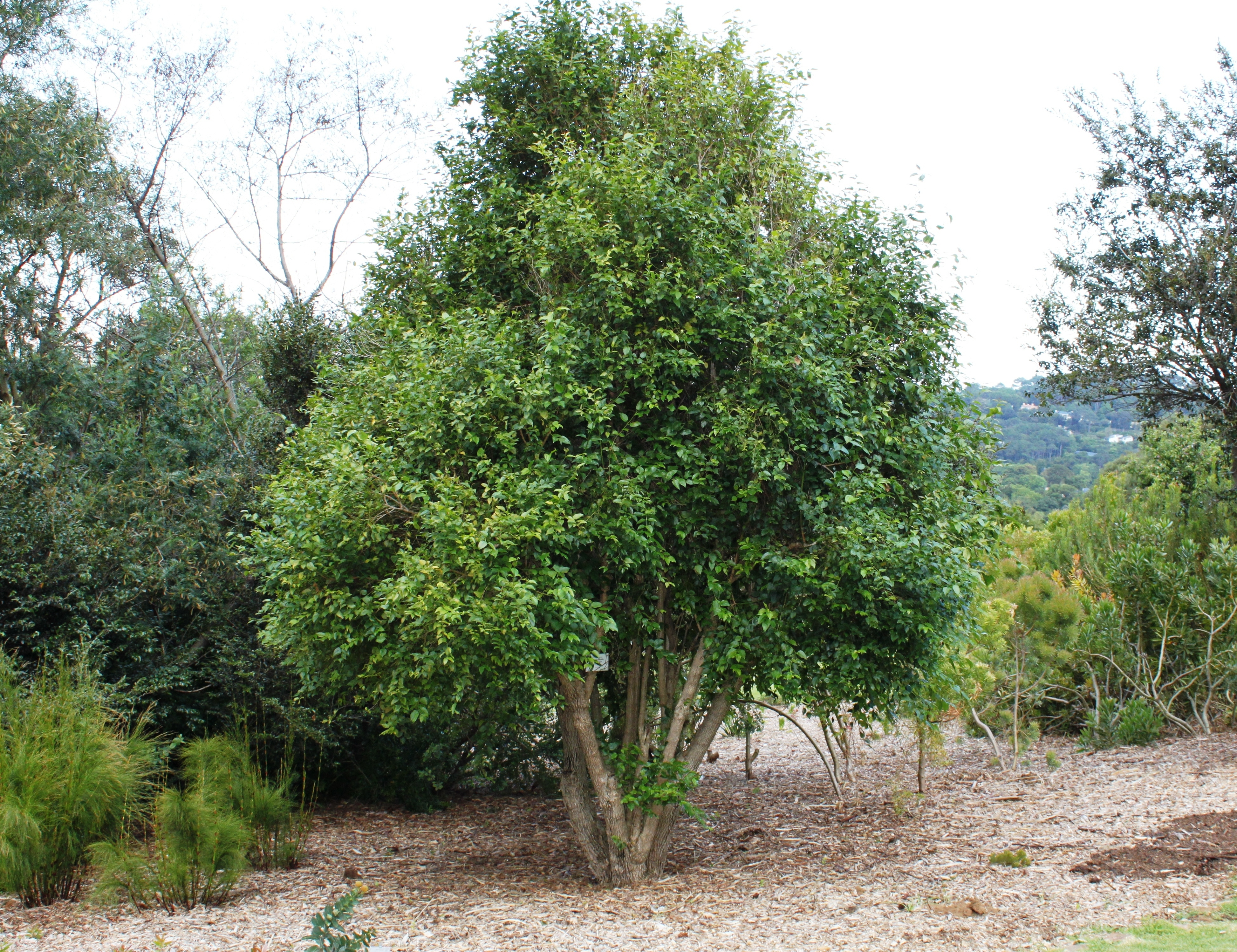 Halleria lucida Tree. The Tree Fuchsia. Photo taken in Cape Town.